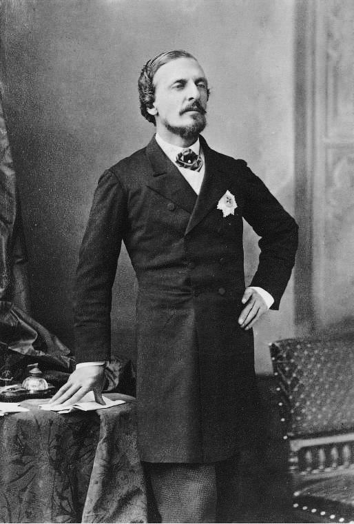 Photograph: Lord Dufferin, Montreal, QC, 1878, by Notman & Sandham. Silver salts on paper mounted on paper, Albumen process, 17 x 12 cm